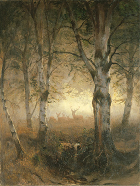 Oil-painting „Hirsche im Wald“ by Karl Bodmer about 1880. Kunsthaus Zürich. de: Gemälde „Hirsche im Wald“ von Karl Bodmer. Um 1880. Kunsthaus Zürich.